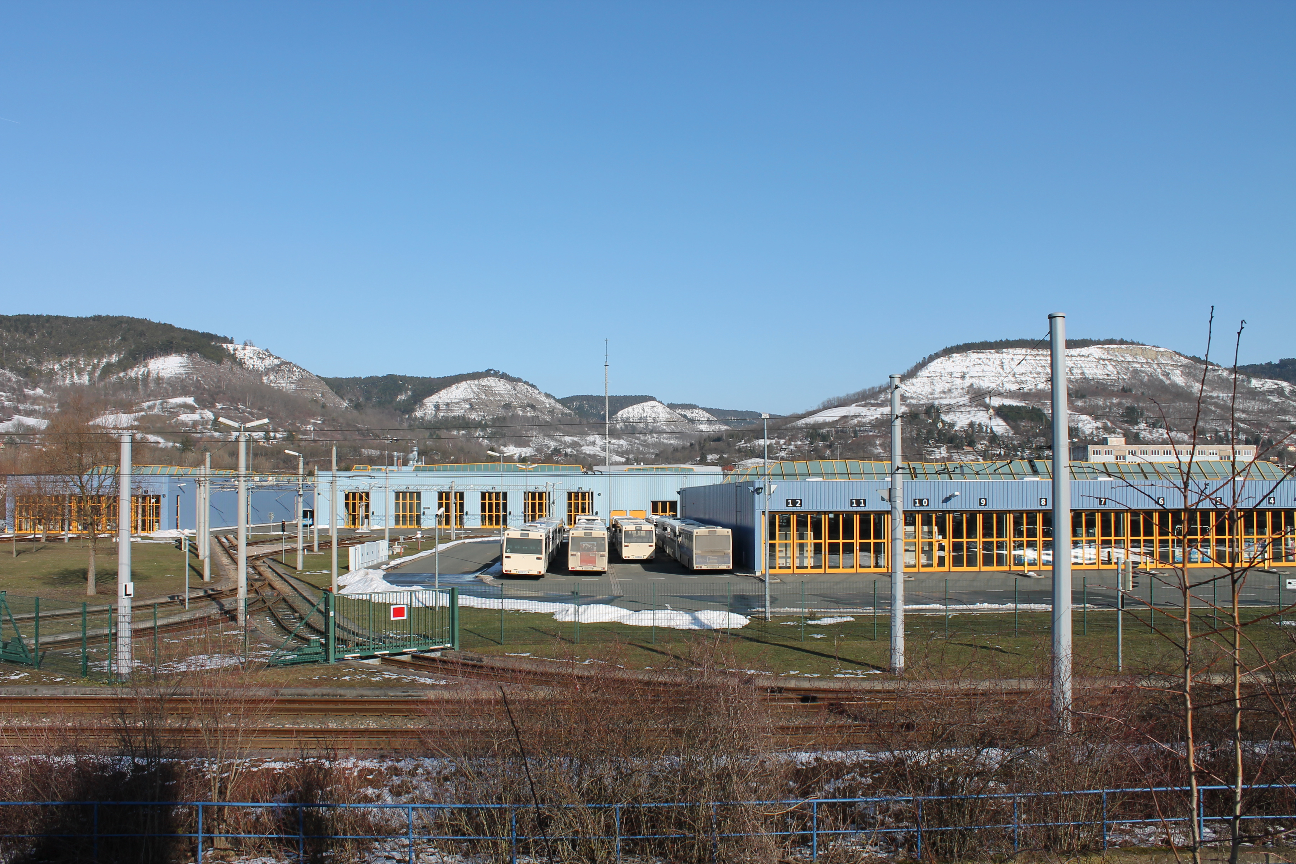 Depot of the Jena Transport Company in Jena-Burgau.